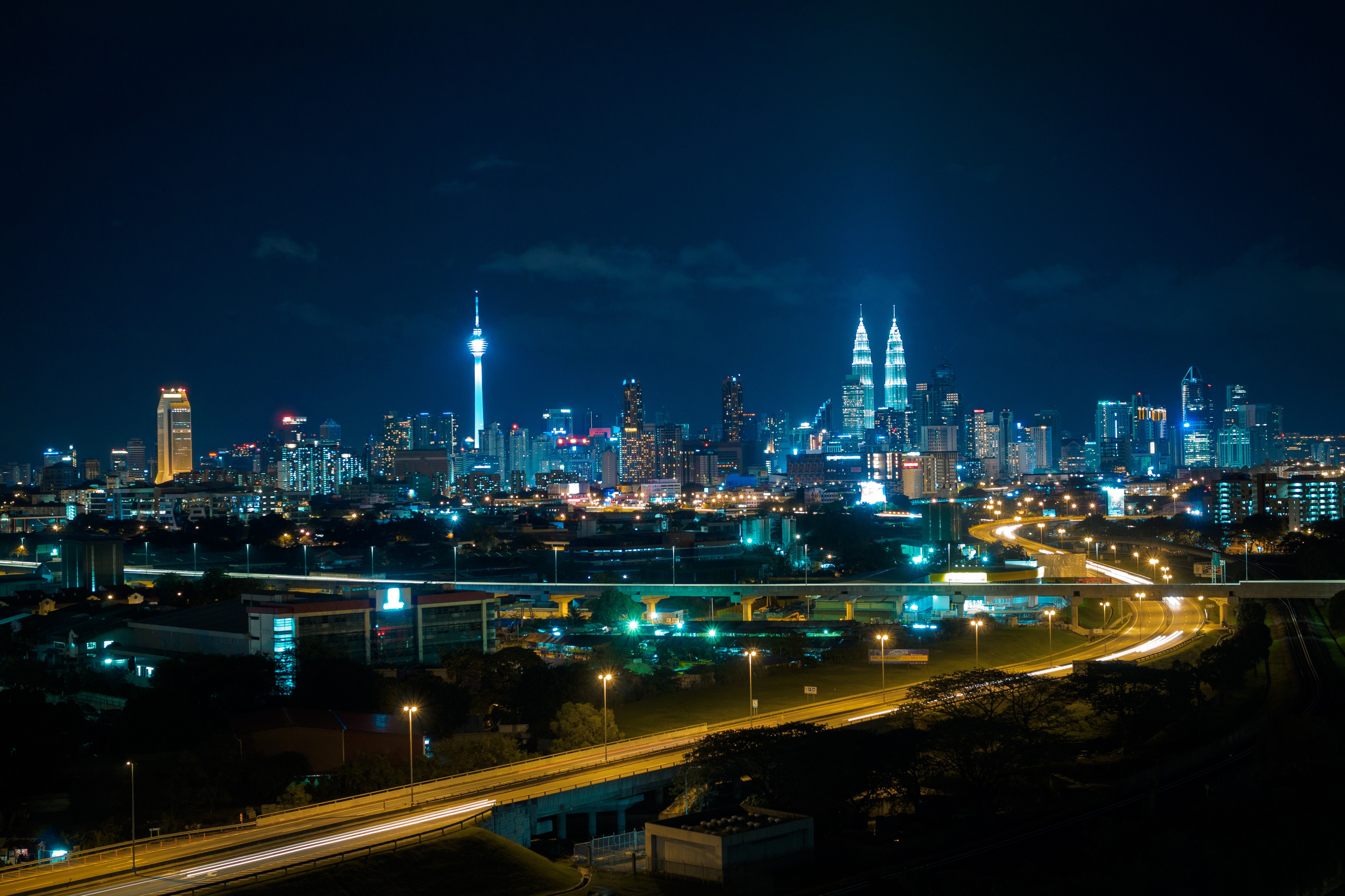 KL Night Scene Cityscape From Balcony OLYMPUS DIGITAL CAMERA Author: Indra Gunawan